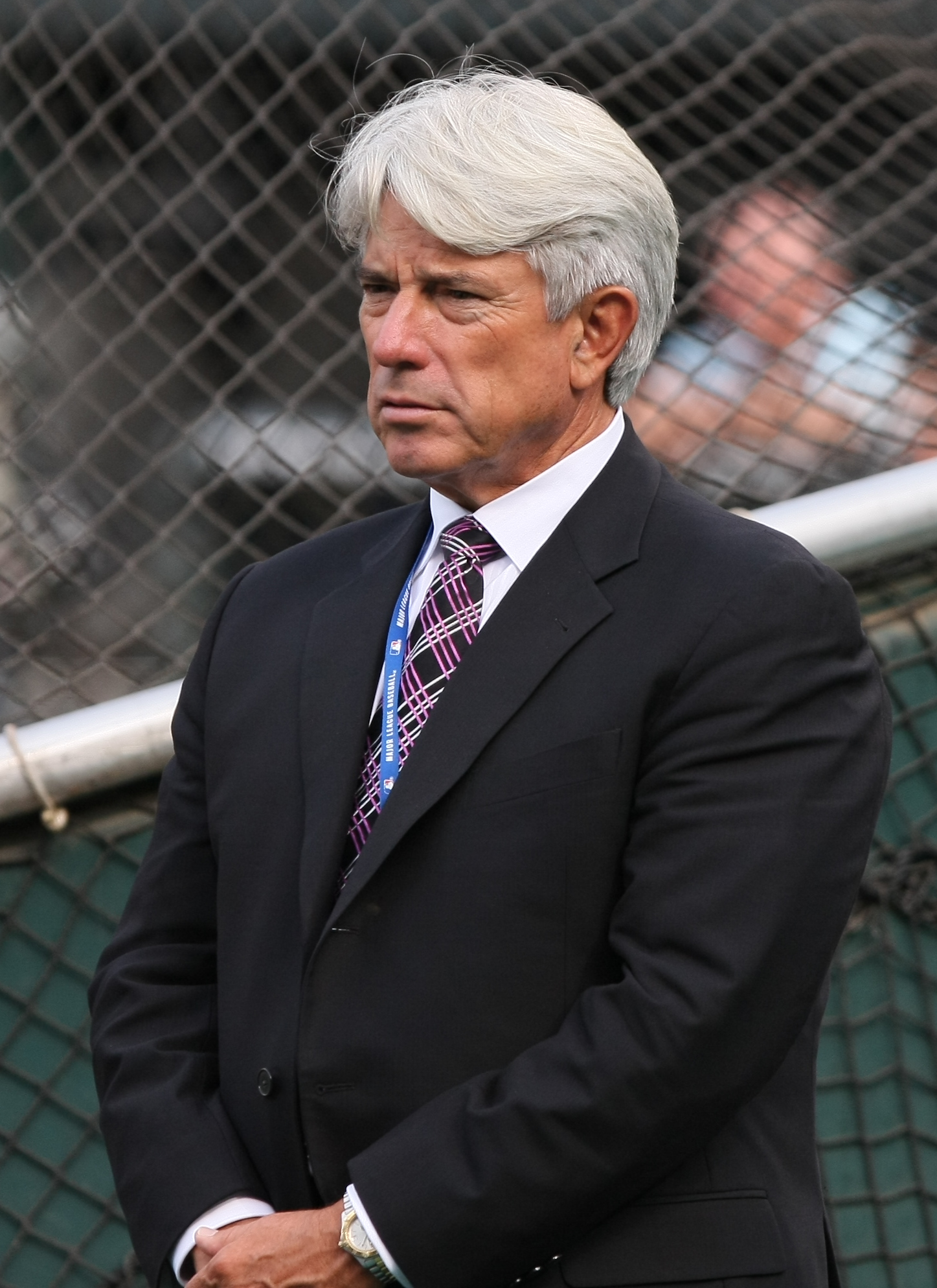 New York Yankees v/s Baltimore Orioles 08/31/09